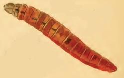 Stainton’s Natural History of the Tineina (1855–1873): Mompha subbistrigella